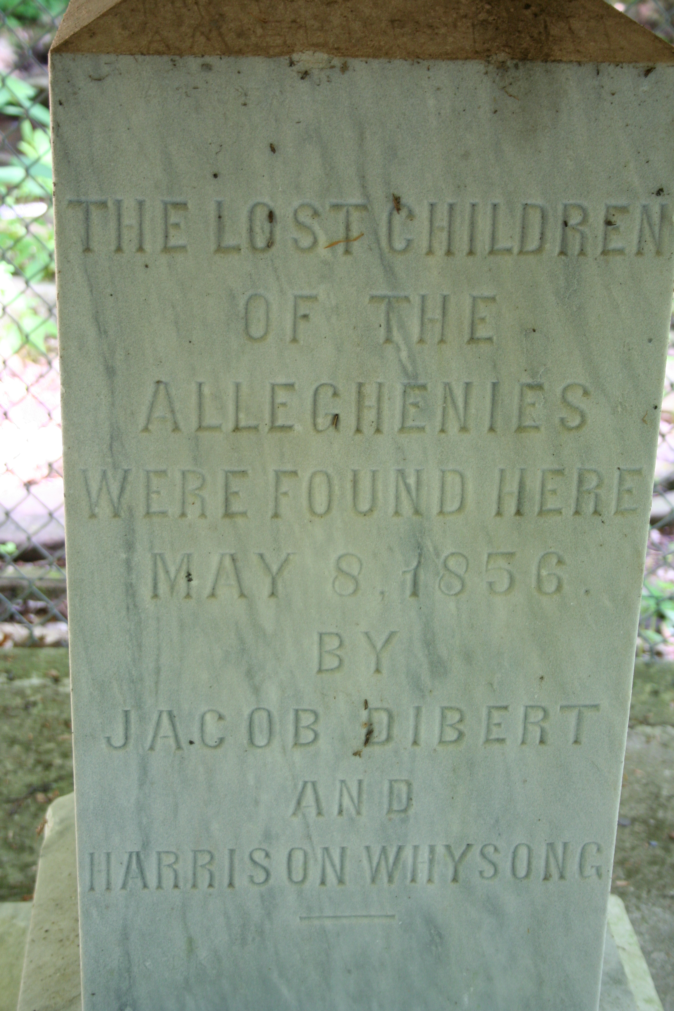 This is a close-up of the monument erected in Blue Knob State Park, PA to remember the Lost Children of the Alleghenies.